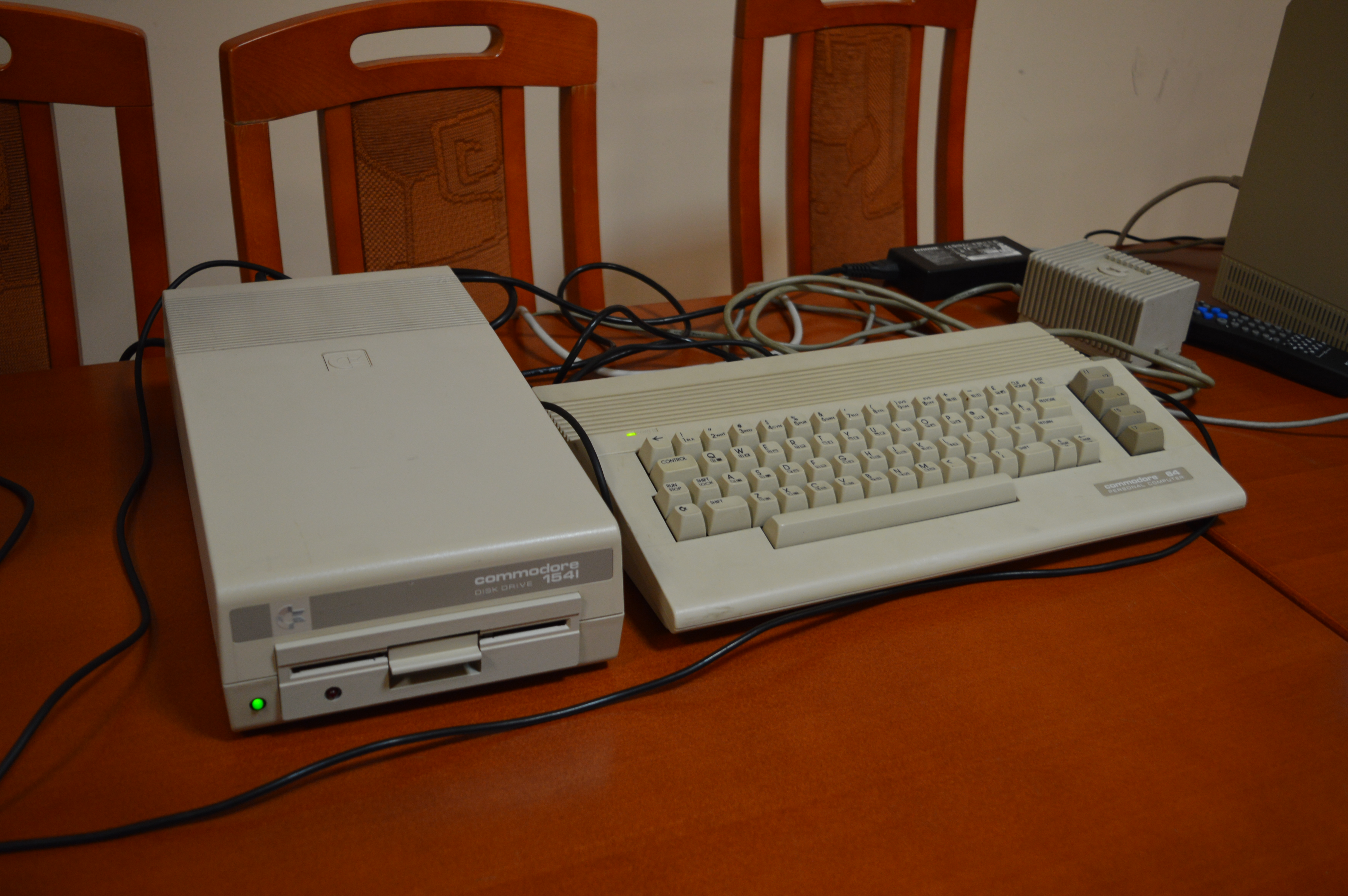 Commodore C-64 with 1541 disk drive